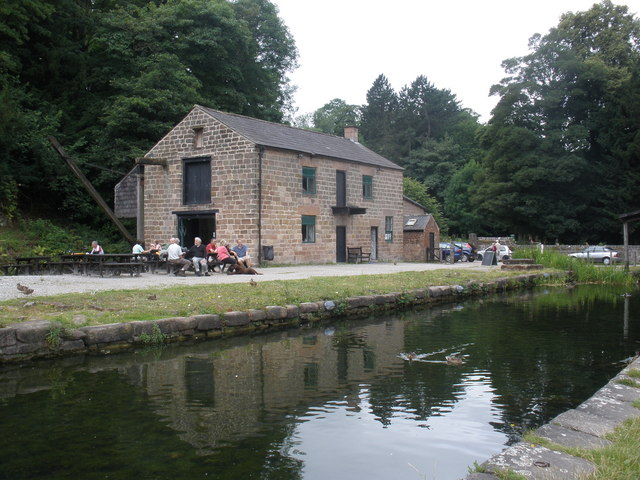 Cromford canal wharf near high peak junction